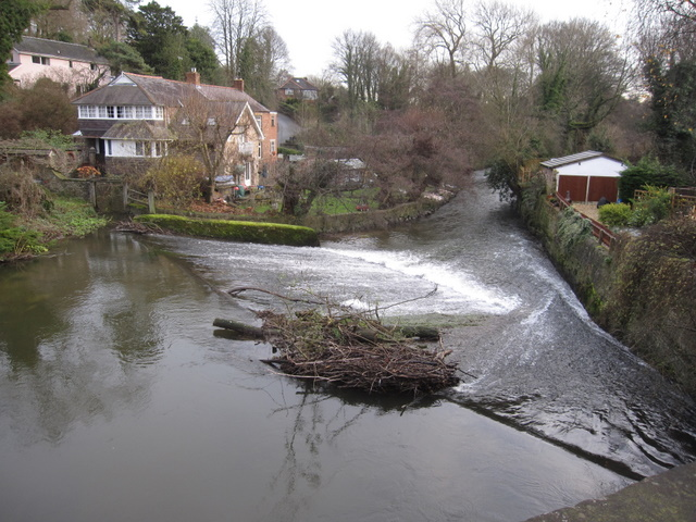 Weir on the River Alyn/Afon Alun, near to Caergwrle, Flintshire/Sir y Fflint, Great Britain. Looking down on the weir from the bridge at Bridge End. The weir was built to provide a head of water that could be diverted through the sluice gate to power the mill on the left. The mill is now a private residence.